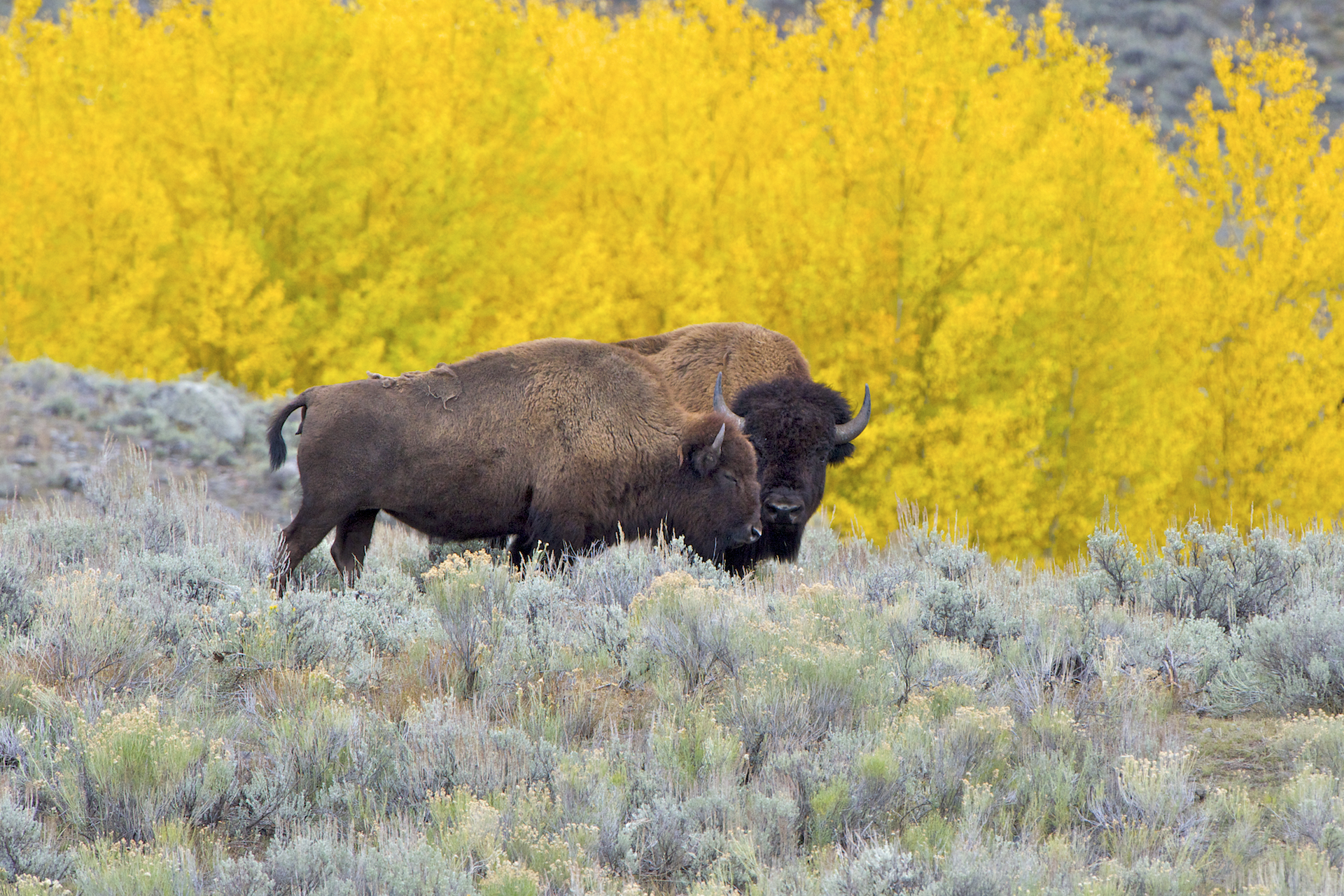 American Bison and calf with a background of rich autumn colours, in Yellowstone NP